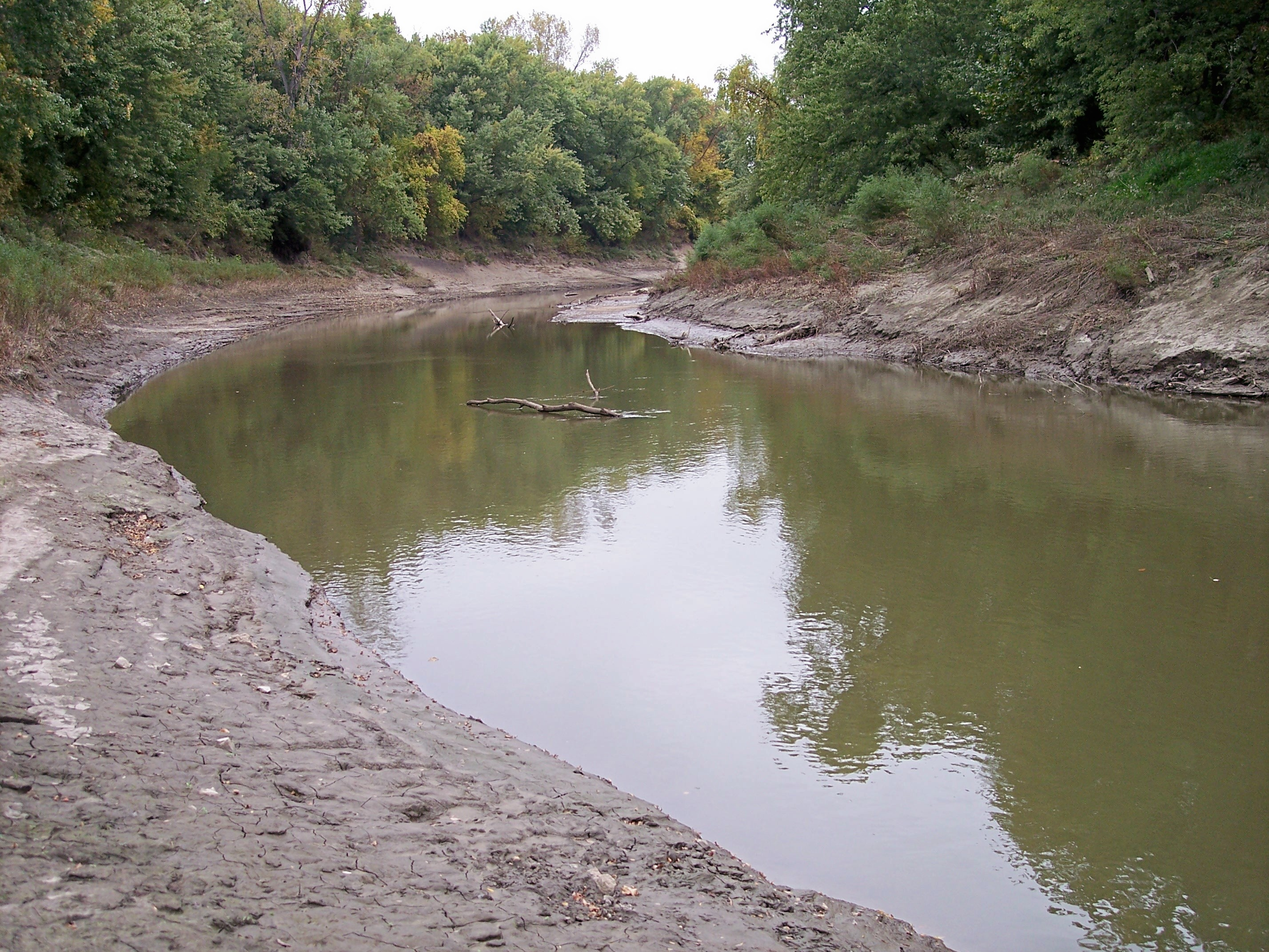 The Platte River (Missouri) with riparian forest habitat — viewed in the Platte Falls Conservation Area. Located near Platte City, in Platte County, Missouri.